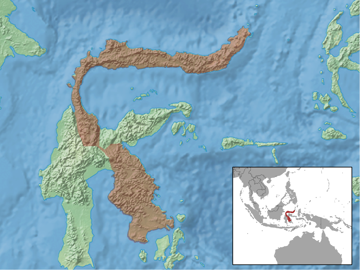 geographic distribution of Taeromys celebensis